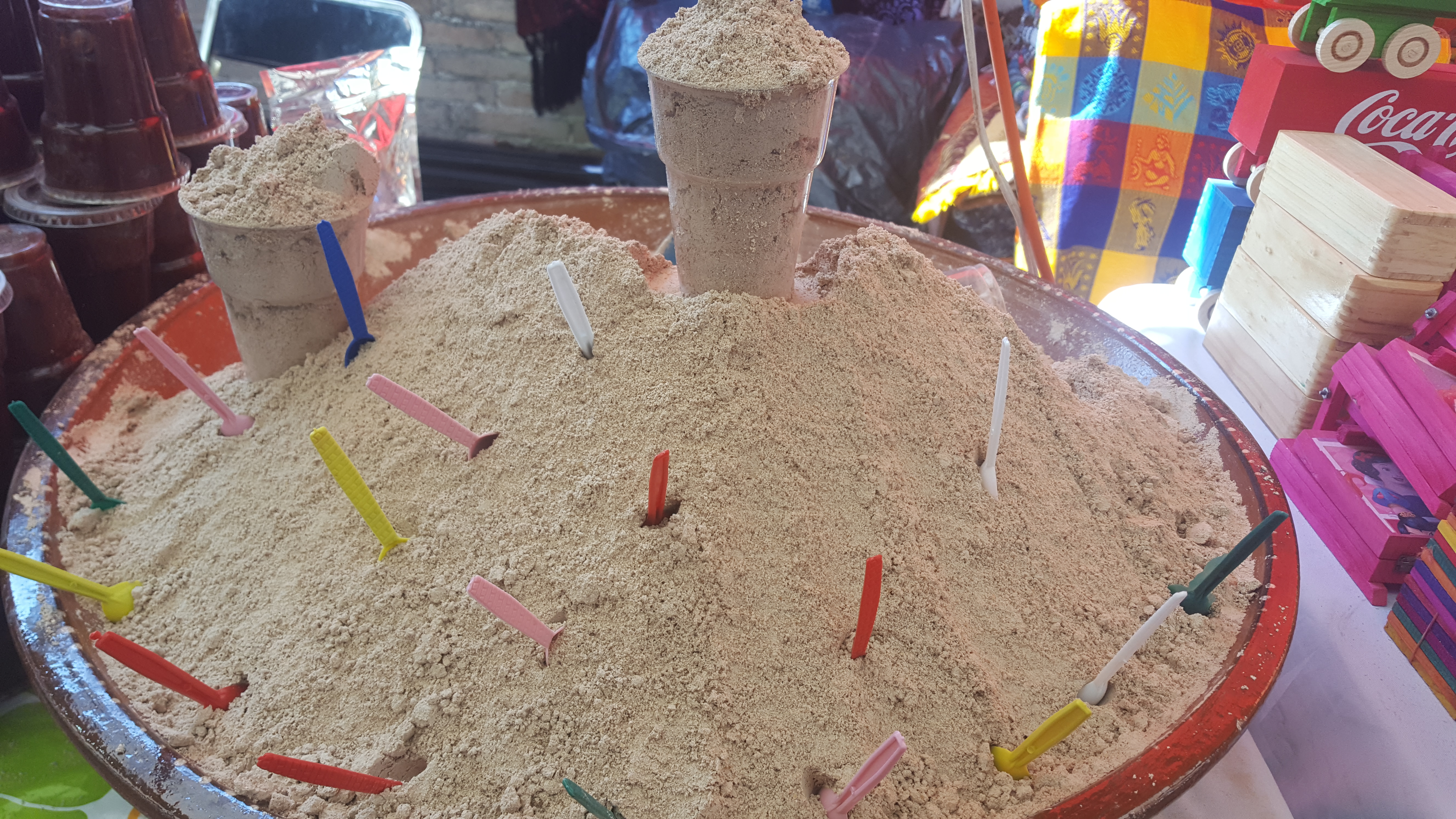 Clay casserole with pinole, a sweet flour made out of corn, found at the XXXVIII Gastronomical fair of Santiago de Anaya, in the state of Hidalgo, Mexico.